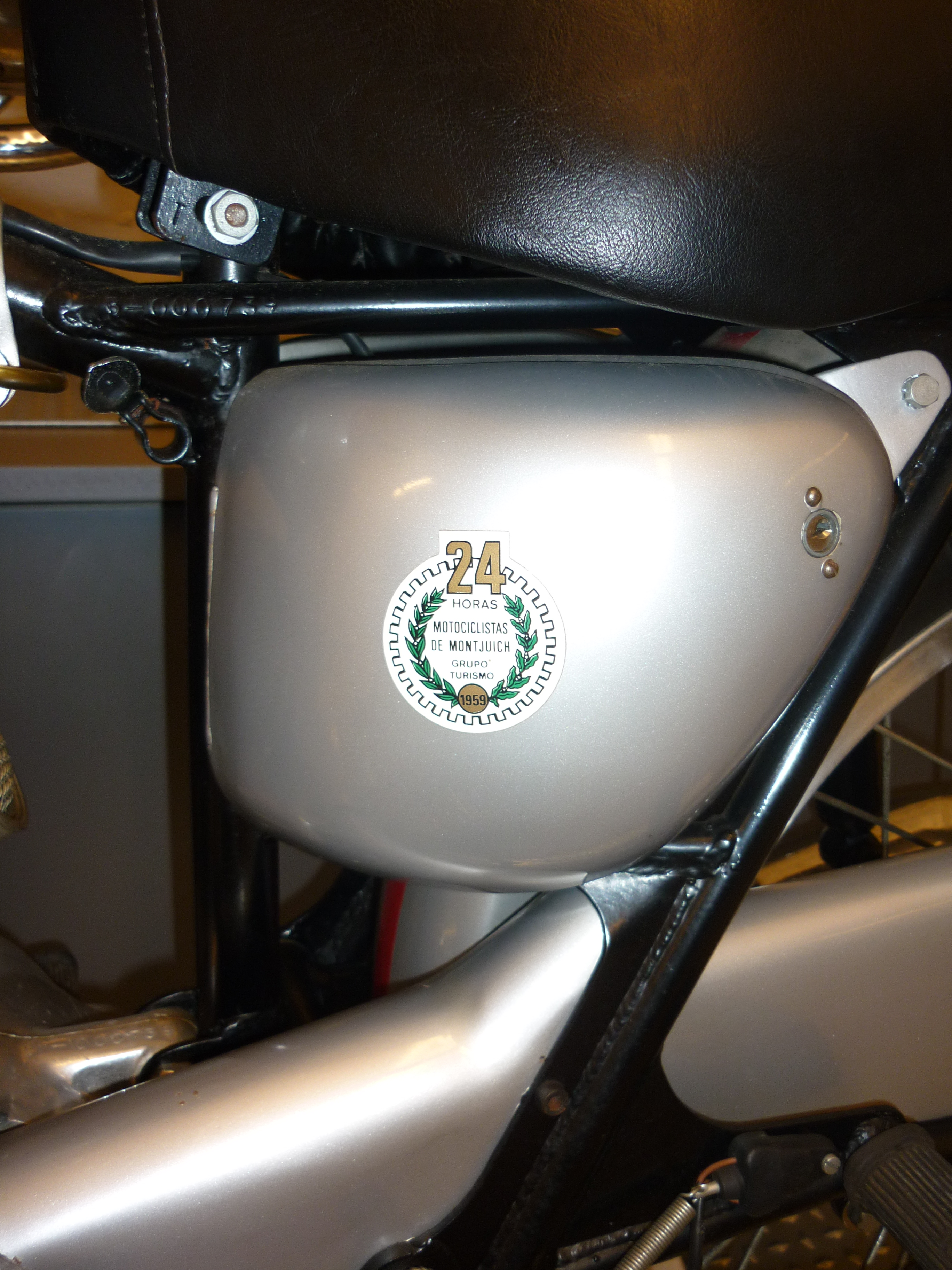 A sticker of the 24 Hours of Montjuïc on a Bultaco Tralla 101 125cc, 1959.